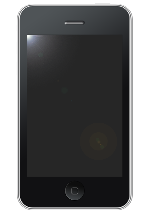 Apple iPhone 3G/3GS, made with Photoshop CS4